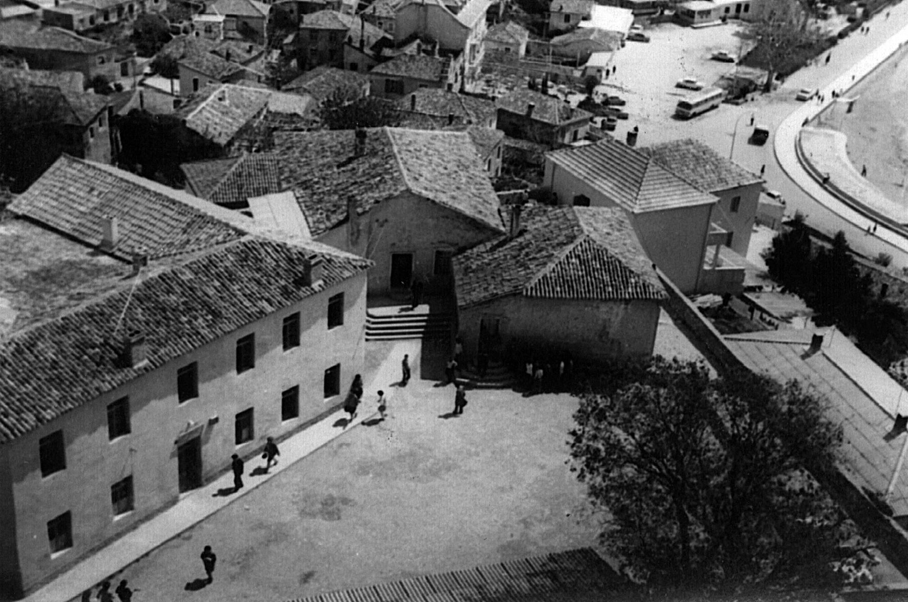 Gymnasium of Ulcinj, 1965–1968